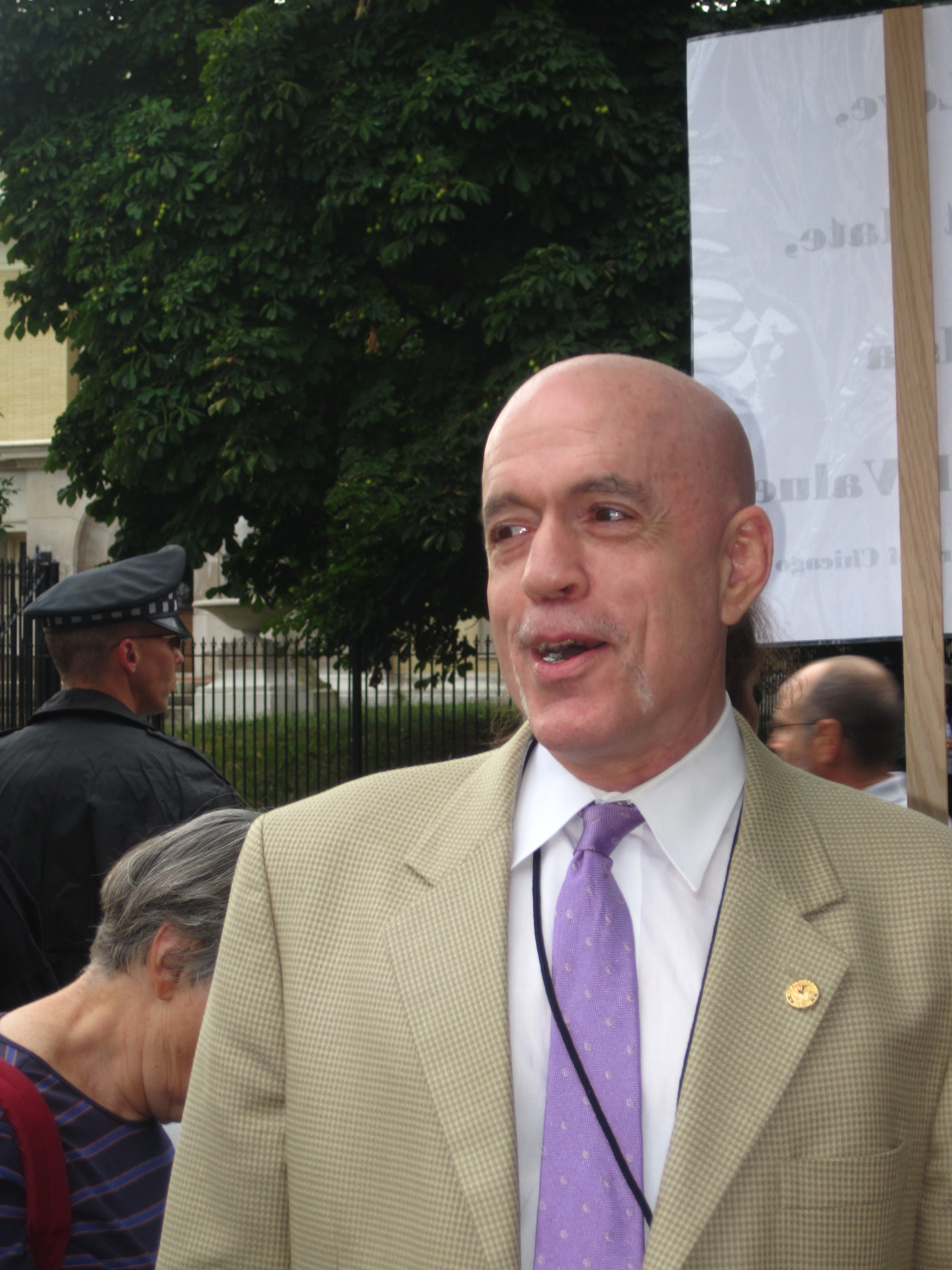 Illinois State Representative Greg Harris in 2009. Photo courtesy of leah.jones, via Flickr.